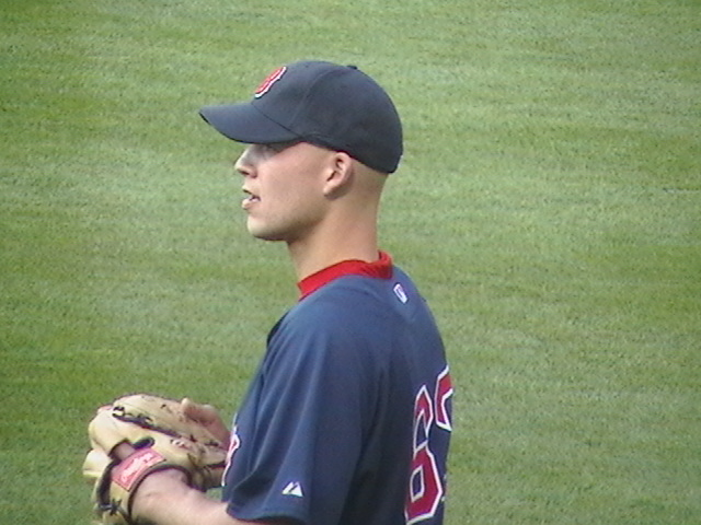 Justin Masterson pitches at Camden Yards against the Baltimore Orioles